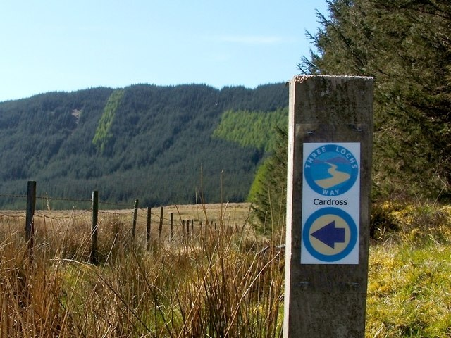 Three Lochs Way marker post